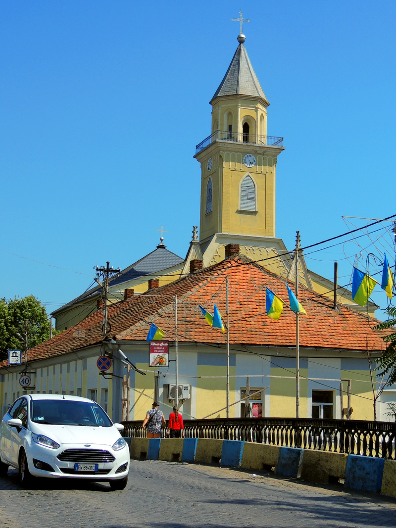 Church in Berehove in Zakarpattia Oblast (province) in western Ukraine